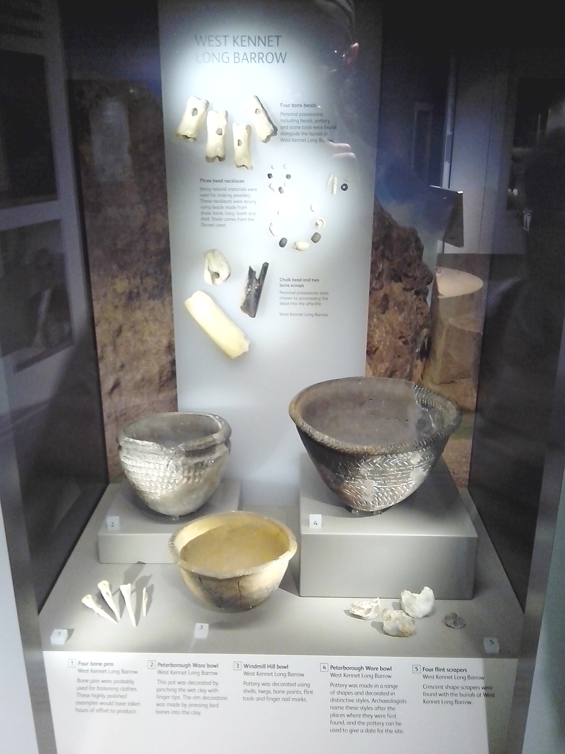 Artefacts excavated from the West Kennet Long Barrow on display at the Wiltshire Museum, Devizes. The items displayed are, from top to bottom: four bone beads; three bead necklaces; a chalk bead and two bone scoops; two Peterborough Ware bowls; four bone pins; a "Windmill Hill bowl"; and four flint scrapers.